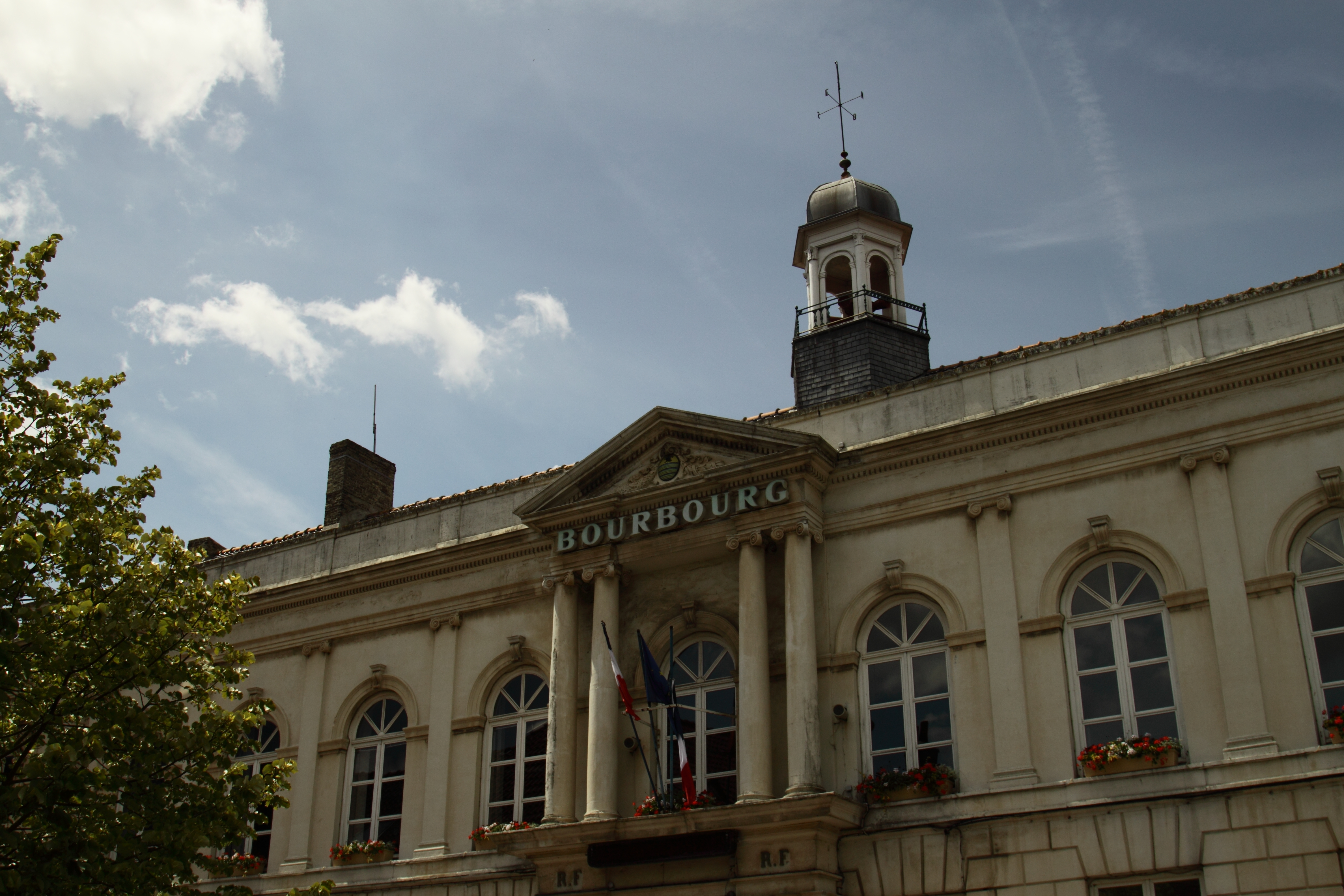 Bourbourg (Dutch: Broekburg) is a commune in the Nord department in northern France. It is situated in the maritime plain of northern France, at the heart of a triangle formed by Dunkirk, Calais, and Saint-Omer. Rich in history, there are a large number of historic sites to see, such as the former jail. Originally built in 1539 under Spanish rule, the three-story 18th century prison building in the main square includes several dungeons and strongrooms. Above the entrance door is a sundial with the motto: Qua hora non putatis - this is part of a verse from the Bible, Luke 12:40, "Et vos estote parati quia qua hora non putatis Filius hominis venit" (Be you then also ready: for at what hour you think not the Son of man will come). Other interesting old buildings include the gothic church (Eglise Saint-Jean-Baptiste), parts of which date from the thirteenth century, and the choir of which is sheltering a huge installation from Anthony Caro called "The Chapel of Light"; the old Fishmarket (Halle au poisson) which dates from 1587 and has twice-weekly fresh fish markets; and a 16th century fortified farmhouse, the Manoir du Withof.